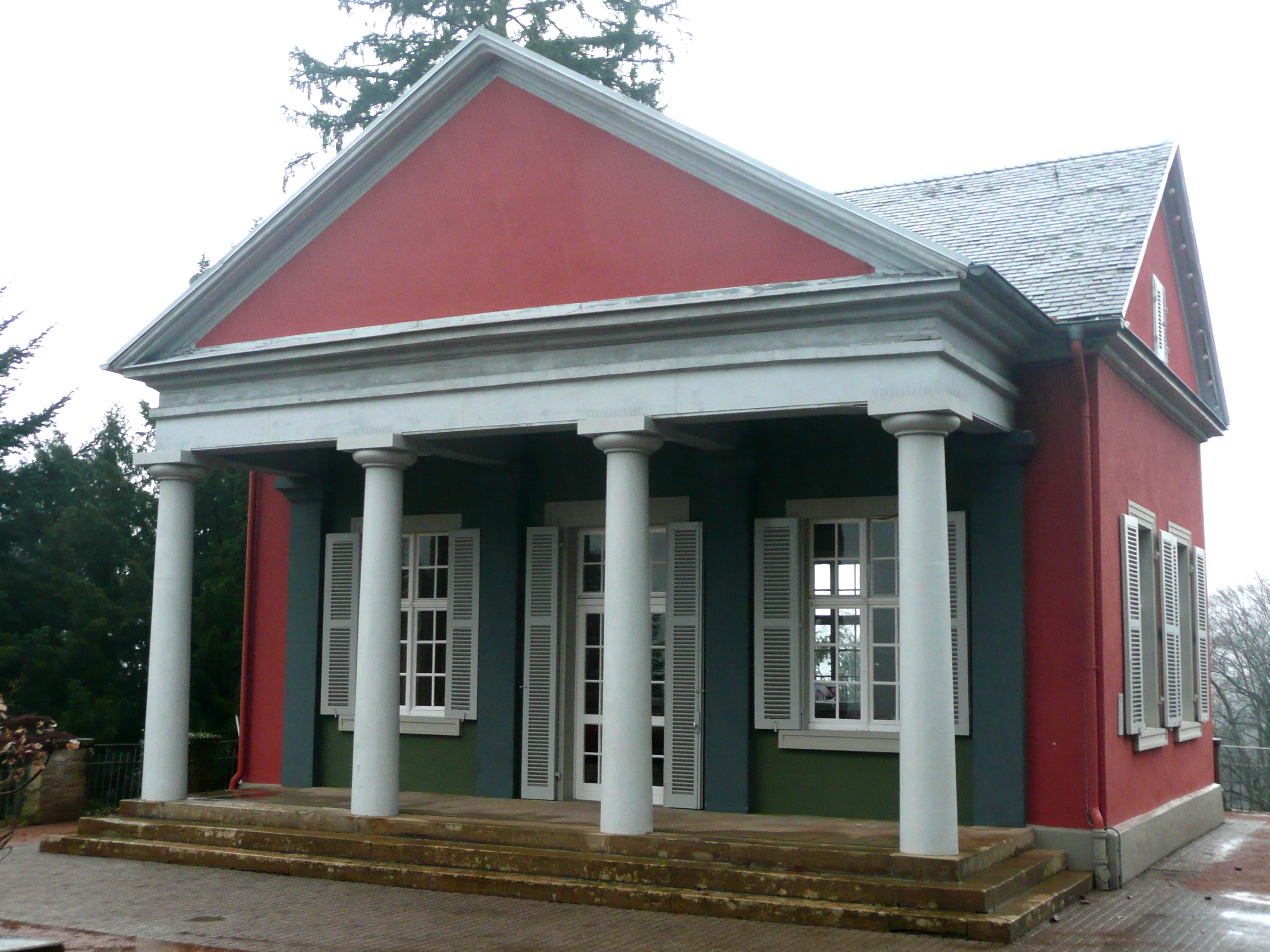 Belvedere in Badenweiler